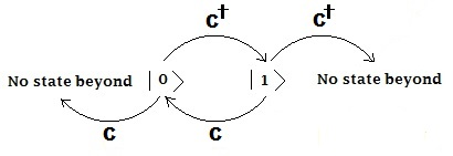 Pictorial representation of action by creation and annihilation operators on Fermionic Fock state.